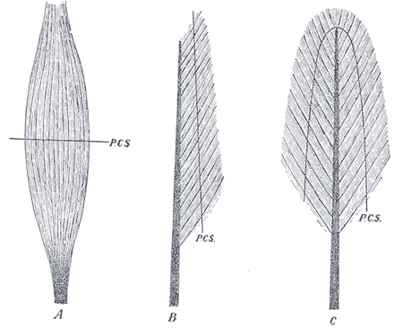 A, fusiform; B, unipinnate; C, bipinnate; P.C.S., physiological cross-section.